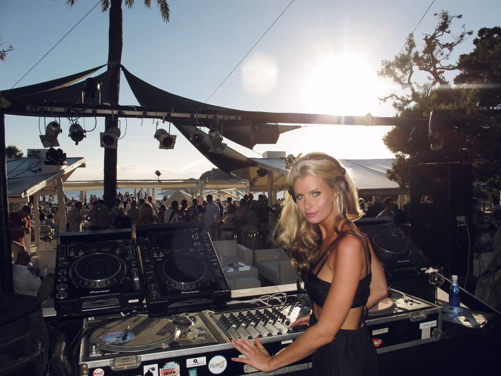 Kate performing at Blue Marlin, Ibiza 2011